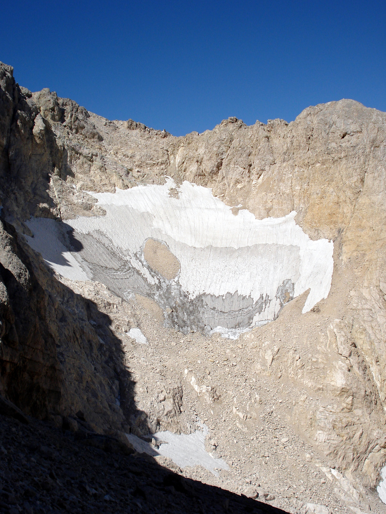 "Il Calderaon" by Banana Muffin (Summer 2007).